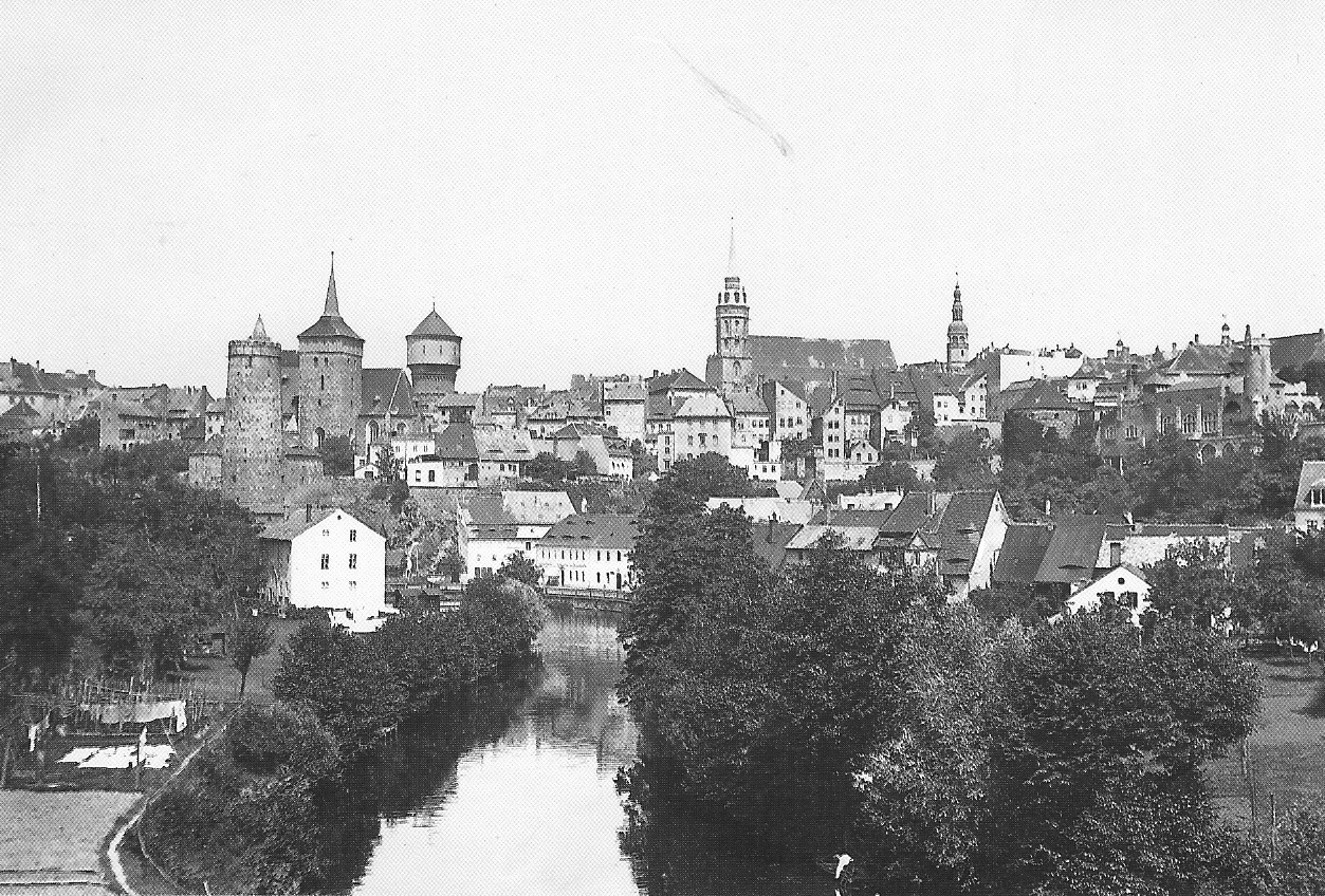 Bautzen; View of the city before the erection of Peace Bridge in 1908